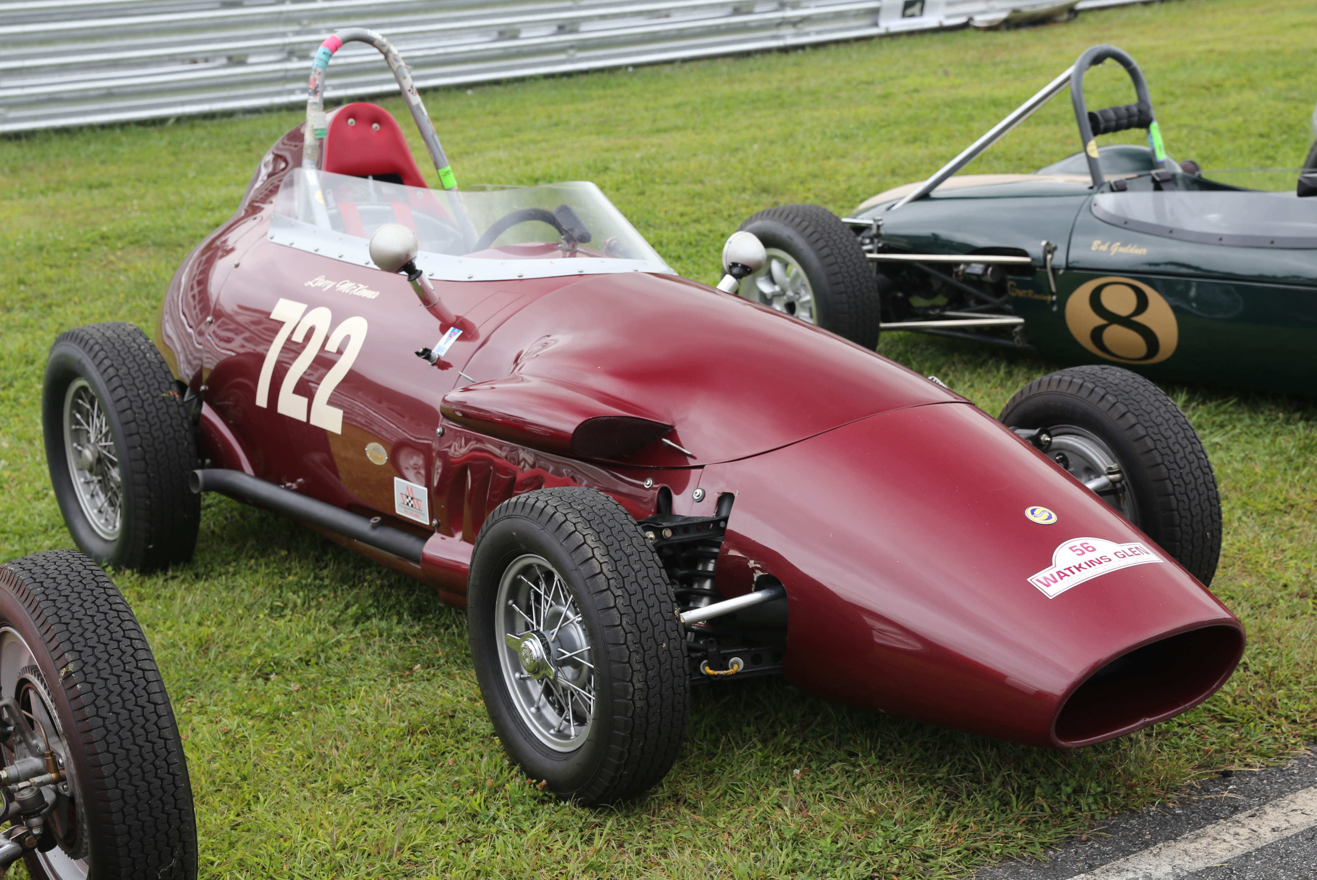 1959 Stanguellini Formula Junior seen at the 2014 Lime Rock Concours d'Élegance. Raced by Larry McKenna over the weekend.